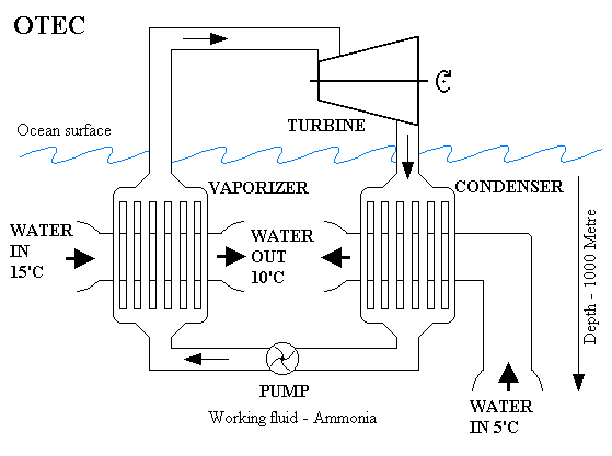 Modification of image provided at This site explicitly states that the image is Free Use Original author Matthew Ritchie, University of West Of England 2002 I revised the previous version of this image on June 10, 2007 (by using Microsoft's Paint program) so that it included flow direction arrows and labels for the vaporizer and condenser. The licensing option remains the same as it was previuosly. - mbeychok 16:10, 6 June 2007 (UTC)